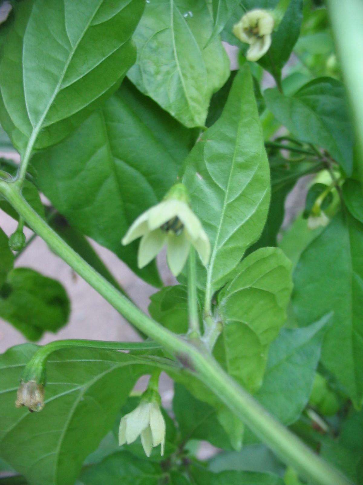 Flower of a Bhut Jolokia Plant